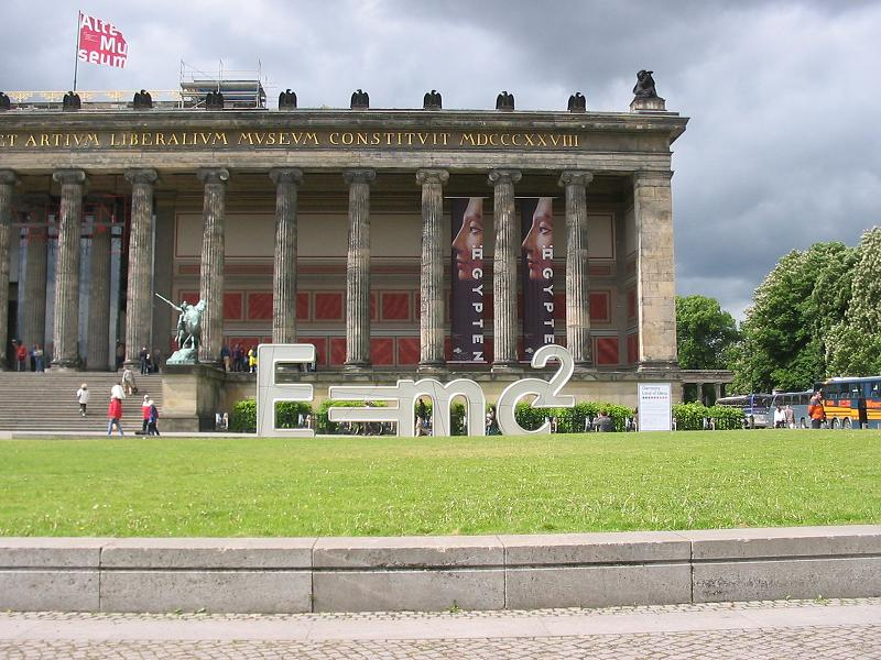 „Relativity“, sixth und last sculpture of the Berliner Walk of Ideas on the occasion of 2006 FIFA World Cup Germany. Unveiling: 19 May 2006 in Lustgarten. In the Background: Altes Museum (Old Museum), between 1825 and 1828 built by Schinkel